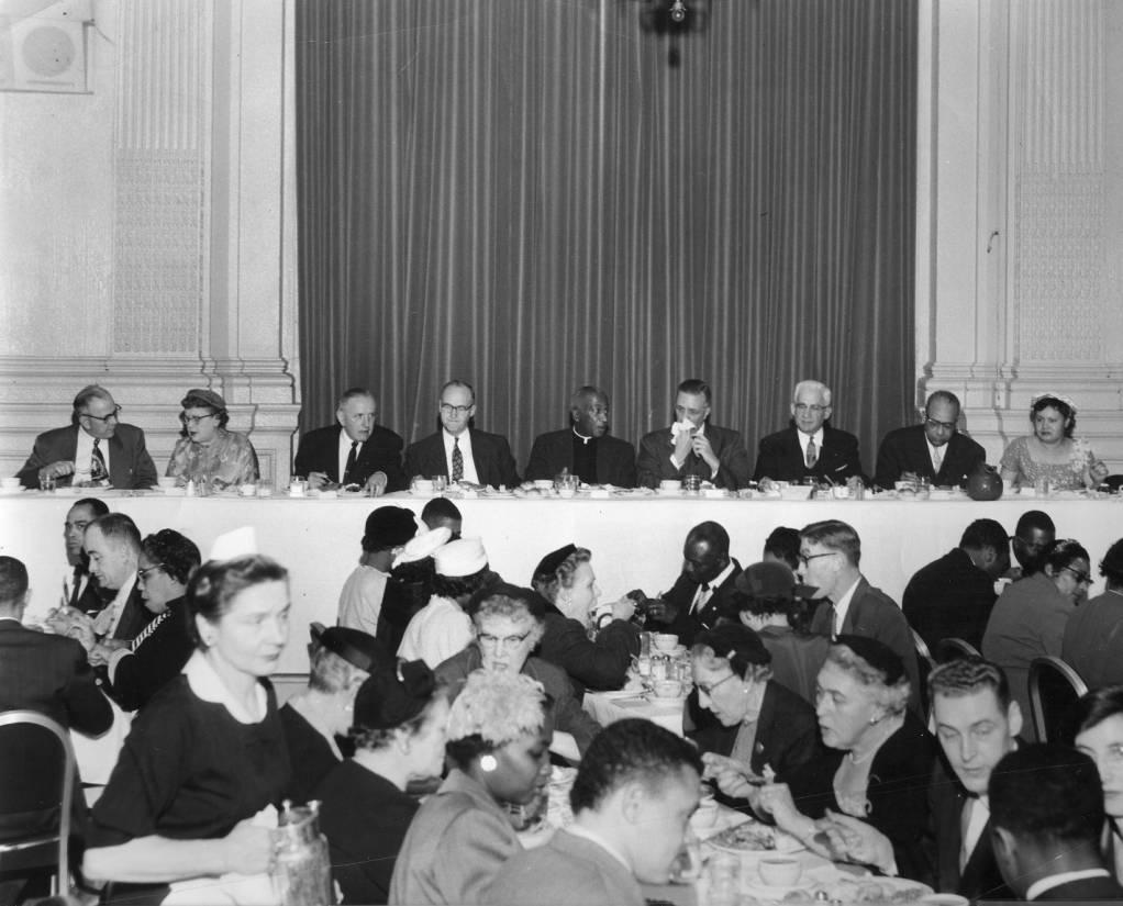 Original Collection: MSS - Urban League of Portland Image Description: Photo shows half of the head table. The minister at the head table is Father L. D. Stone, St. Philips Episcipal Church. The second person on the right of Father Stone is Dave Robinson, to the right of him is Dr. DeNorval Unthank and and Mrs. Dorothy Berry is on the extreme right. Ruth and John Holley are seen in the middle at the bottom of the photo. Willis Williams is the second person at the lower left table (facing the camera) and Mrs. Phil Reynolds is the second person from Willis Williams. You can find this image by searching for the item number by clicking here. Want more? You can find more digital resources online. We're happy for you to share this digital image within the spirit of The Commons; however, certain restrictions on high quality reproductions of the original physical version may apply. To read more about what “no known restrictions” means, please visit the Special Collections & Archives website, or contact staff at the OSU Special Collections & Archives Research Center for details.